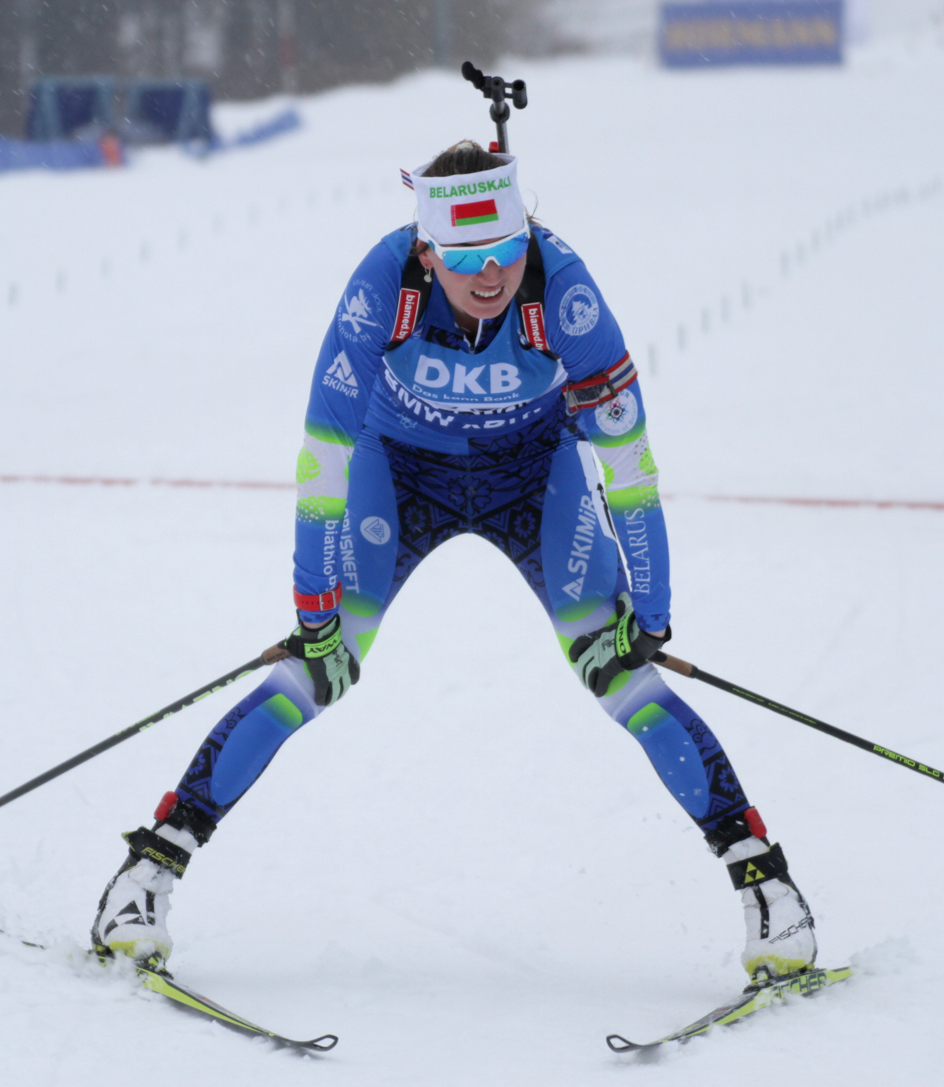 2018 Oberhof Biathlon World Cup - Sprint Women